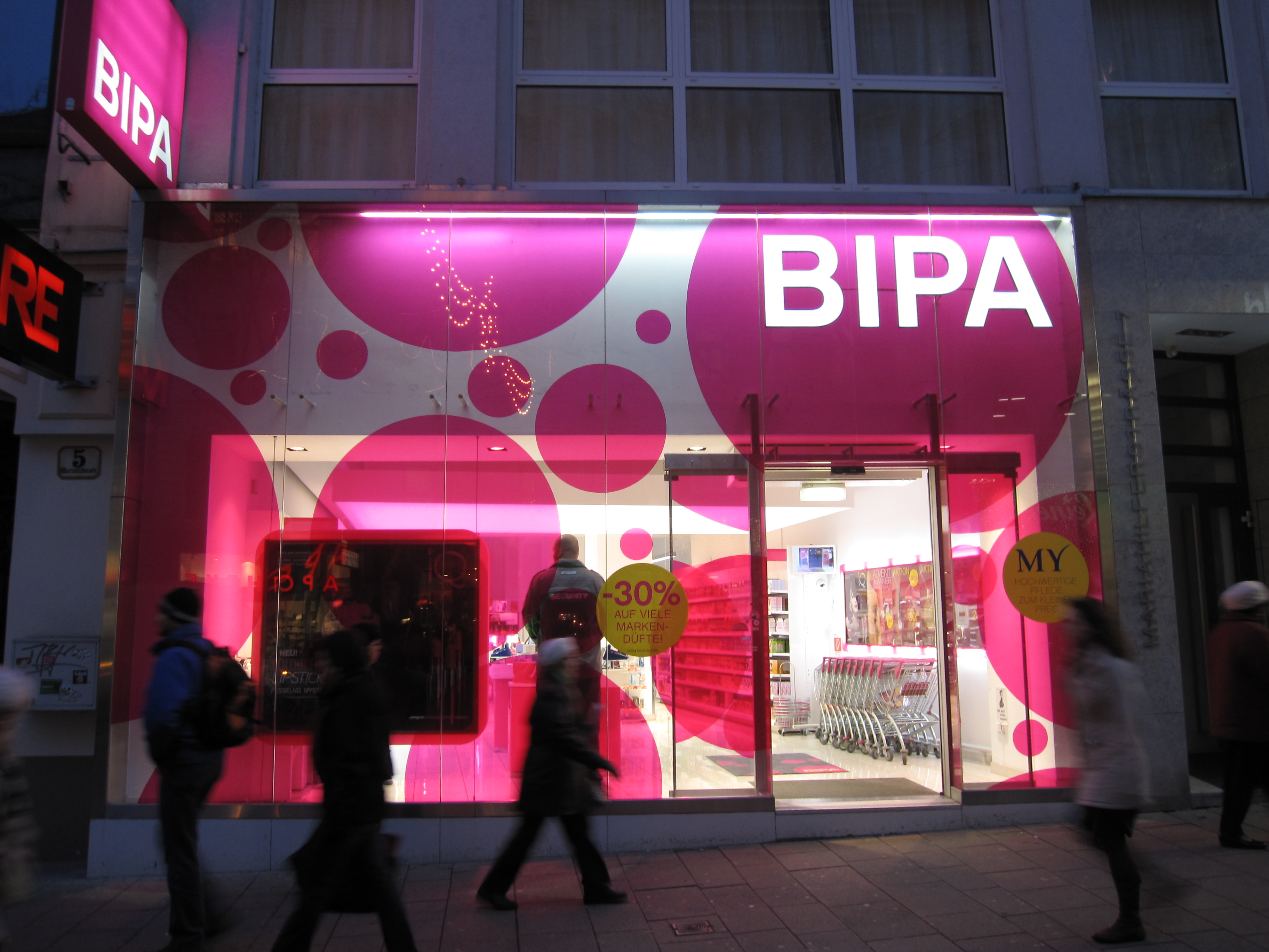 Bipa in Vienna at Mariahilfer Strasse.